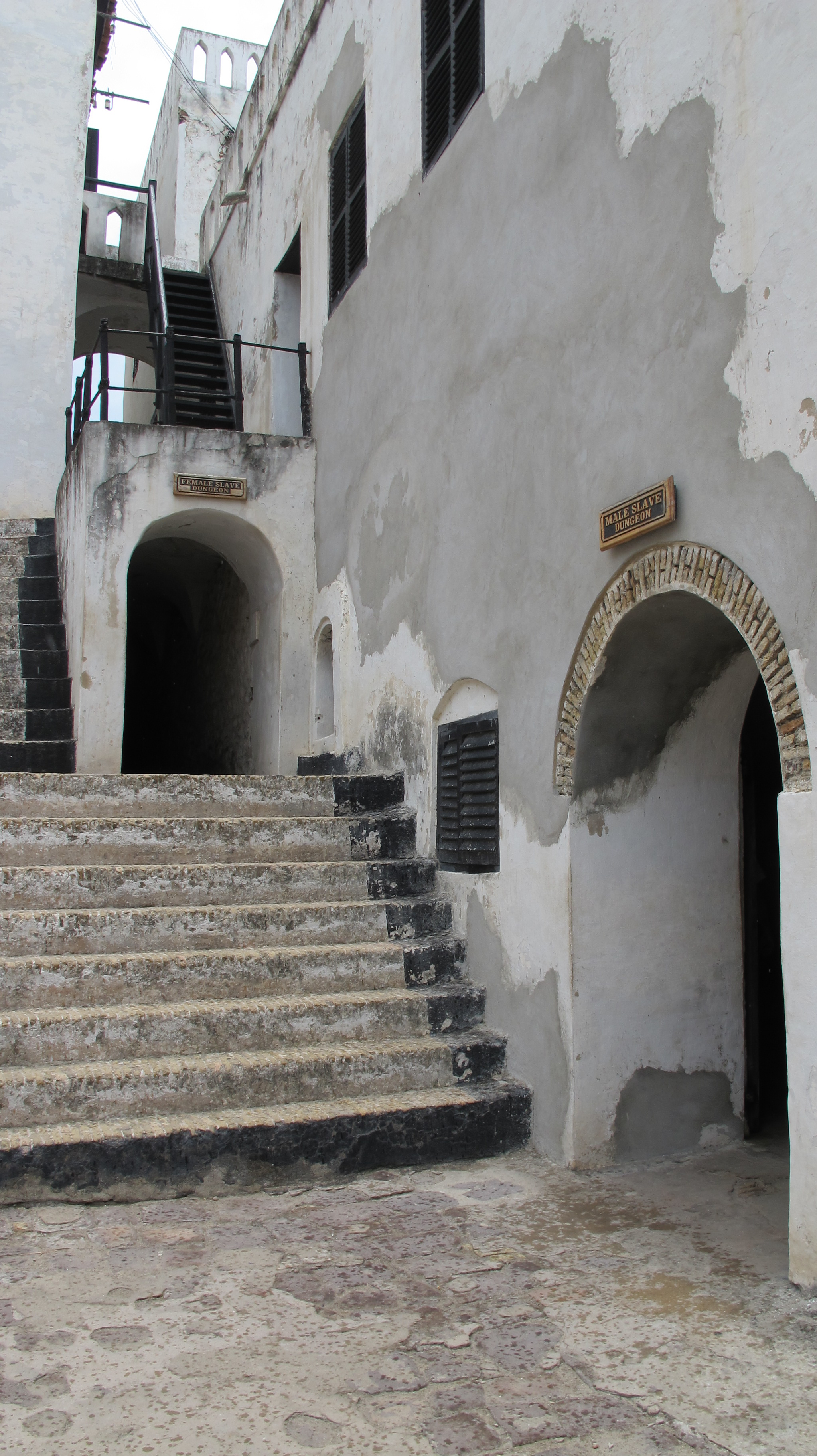 Ghana, Elmina Castle, Male and Female slave entrance